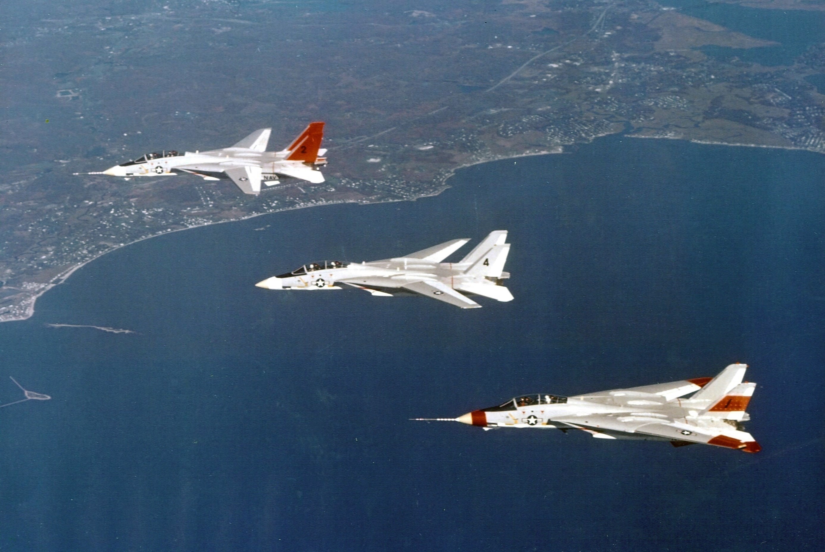 Three U.S. Navy Grumman F-14A Tomcat prototypes in flight near Calverton, New York (USA). The three aircraft show the wing configuration options available on the F-14A.Although the aircraft are numbered "1", "2" and "4", these aircraft are probably the 2nd, 3rd and 5th production aircraft, as the first prototype already crashed on its second flight before any other F-14 was built. Therefore, probably visible are: "1": F-14A-5-GR (BuNo 157981) made its first flight on 24 May 1971. It suffered an inflight hydrazine fire in an auxiliary power unit on 13 May 1974. 157981 landed safely but was written off due to extensive damage. "2" F-14A-10-GR (BuNo 157982) was used to explore the outer reaches of the F-14 performance envelope and flew trials with steadily increasing loads and speeds. Today, it is on exhibit at the Cradle of Aviation Museum, Garden City, New York (USA). "5" F-14A-25-GR (BuNo 157984) was assigned to Naval Weapons Test Center, Naval Air Station Point Mugu, California (USA). Today, it is on exhibit at the National Museum of Naval Aviation, Pensacola, Florida (USA).